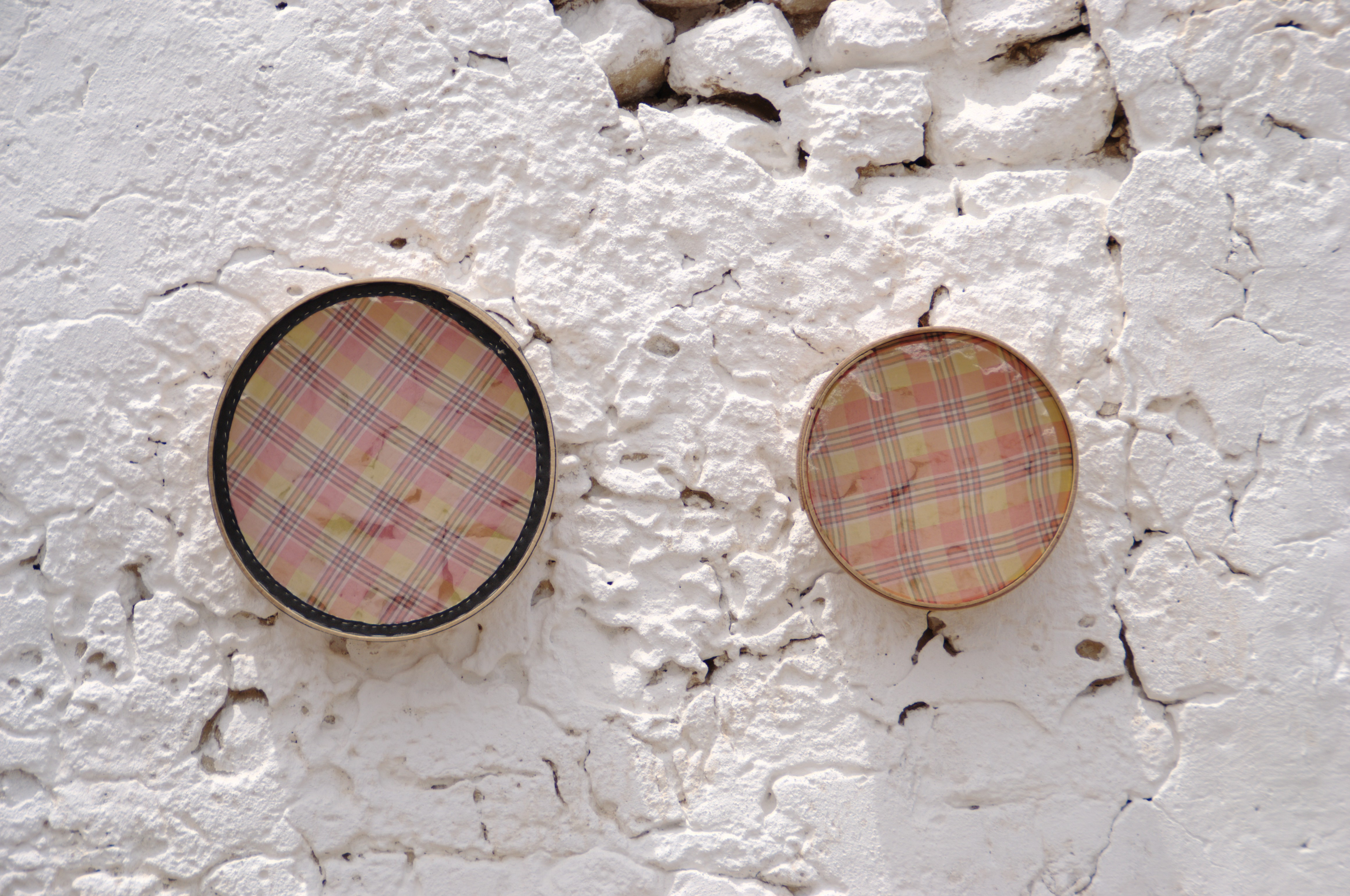 Sieves for bsissa, Lamta, Tunisia